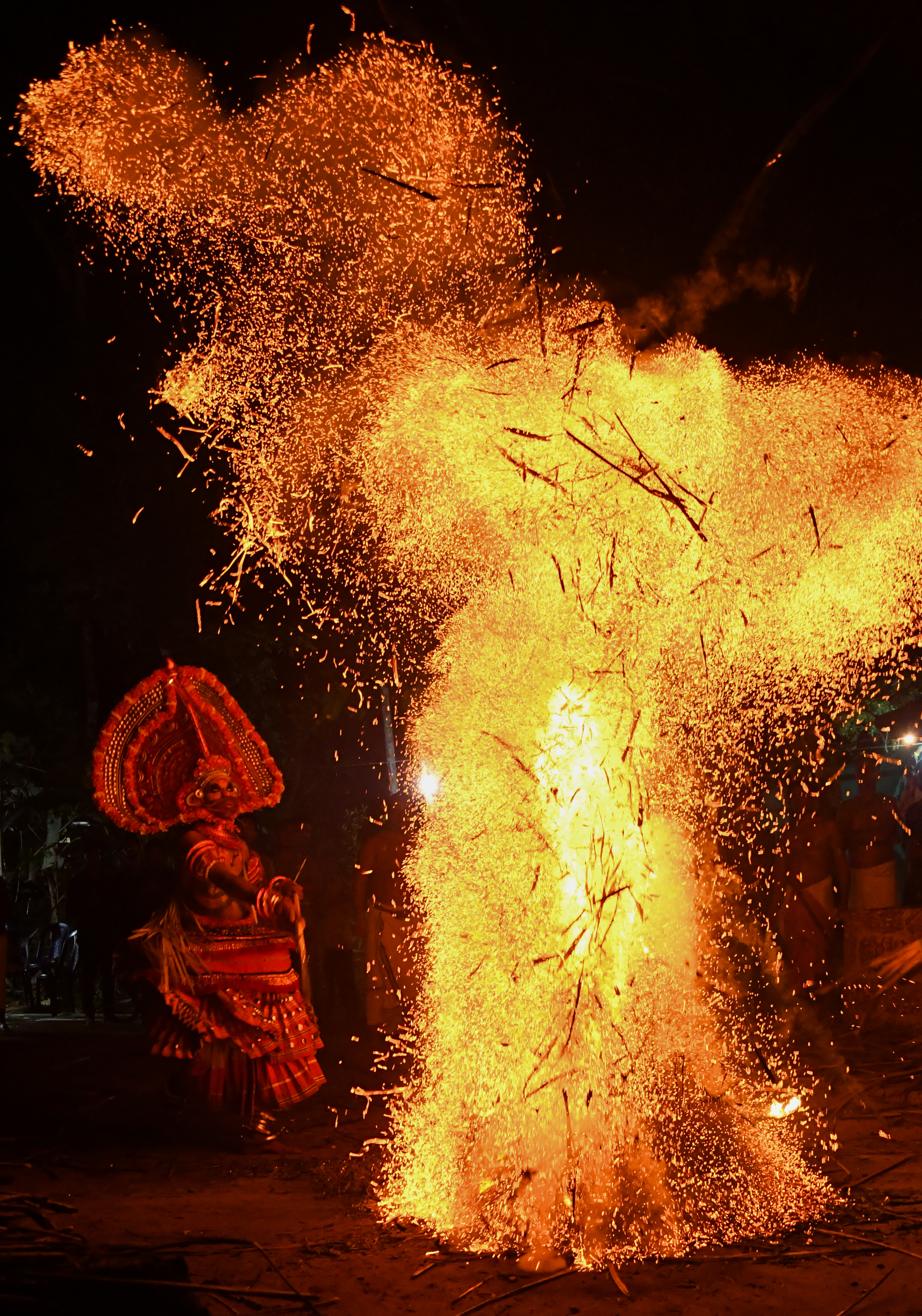 theyyam is a ritual art of Kerala